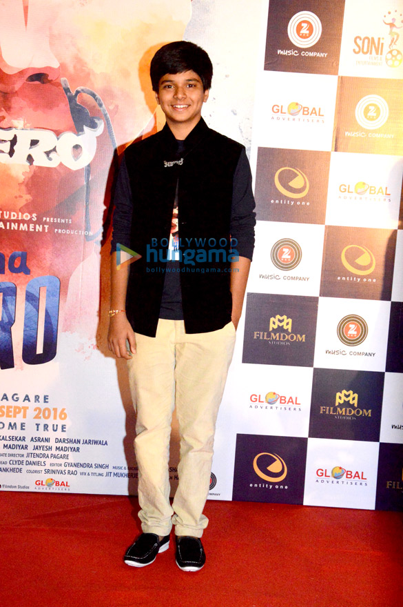 Ayush Mahesh Khedekar on trailer launch of 'Ek Tha Hero'